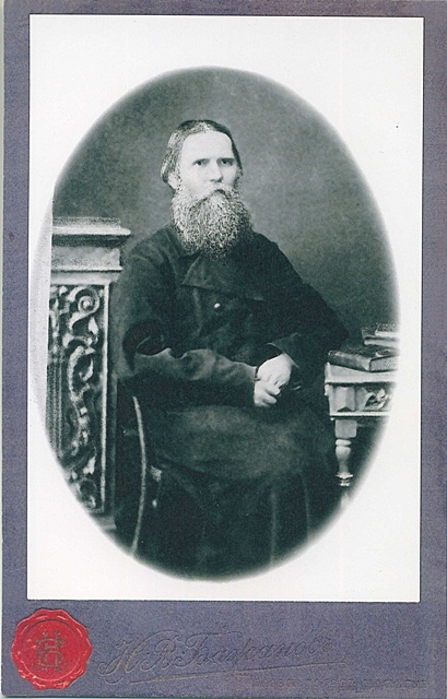 Yakov Labzin (1827-1891), businessman from Pavlovsky Posad.